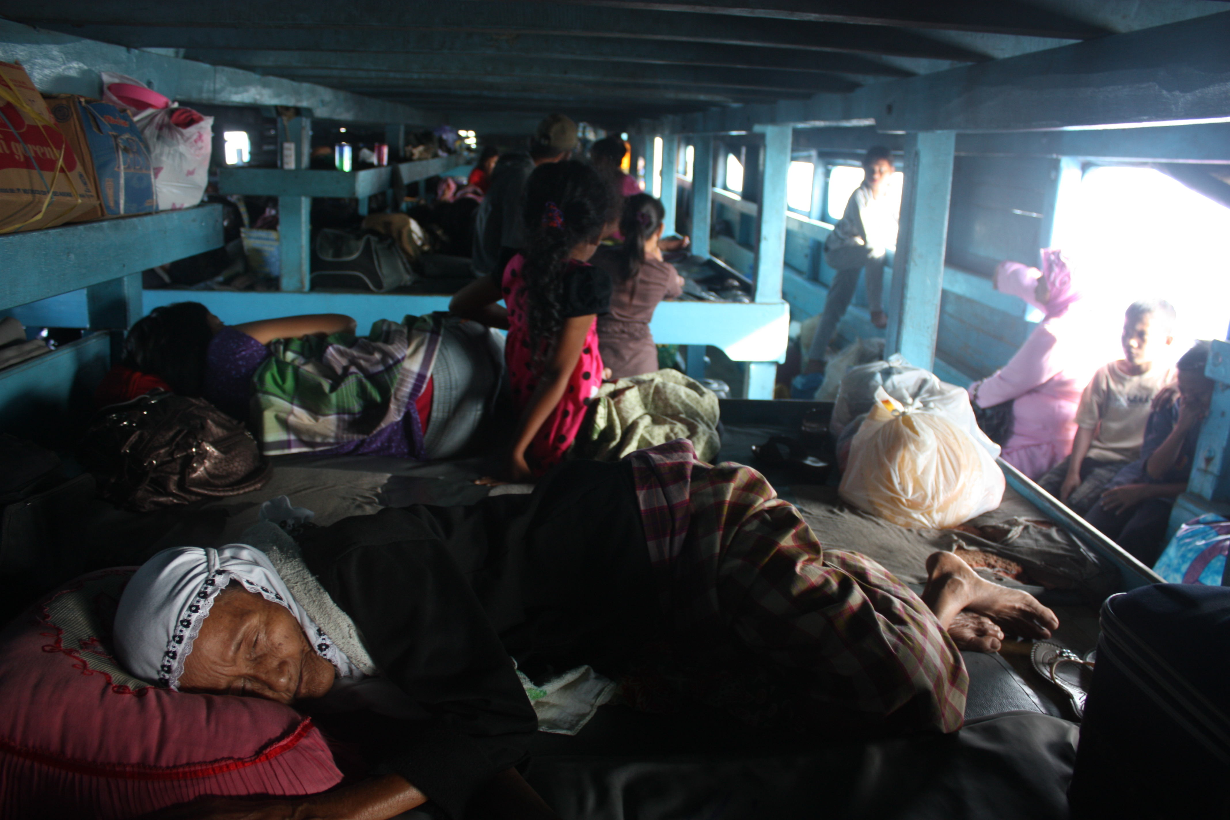 Malenge - Ampana, on the ferry, trying to sleep